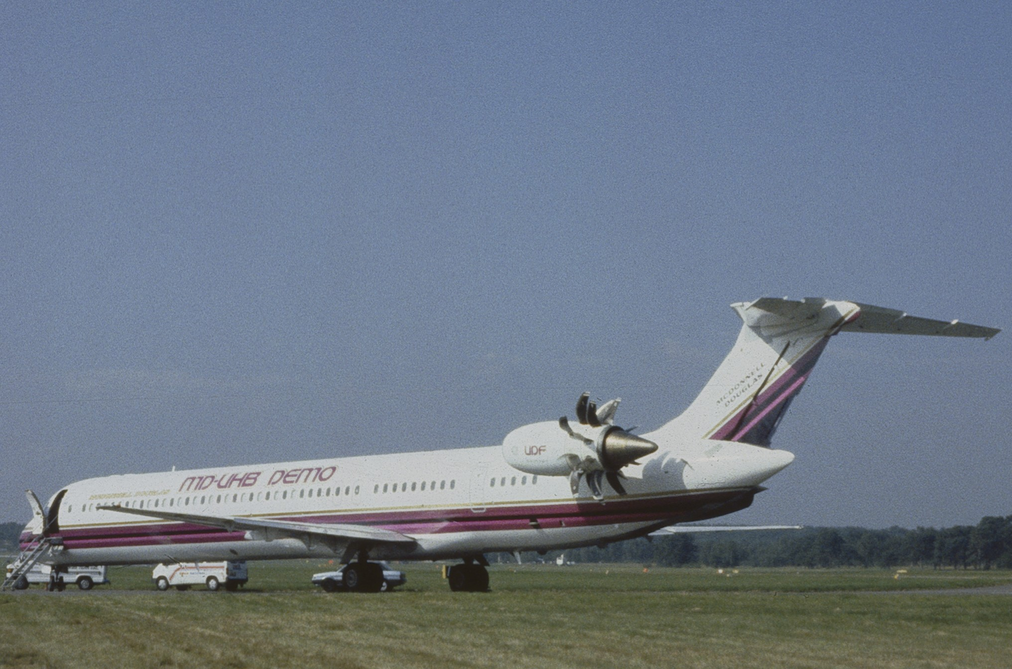 McDonnell Douglas MD-81(UHB) (N908DC was the prototype MD-80 airframe and was broken up for spares at Sherman, TX in 1994). Farnborough (FAB / EGLF) UK - England, September 1988